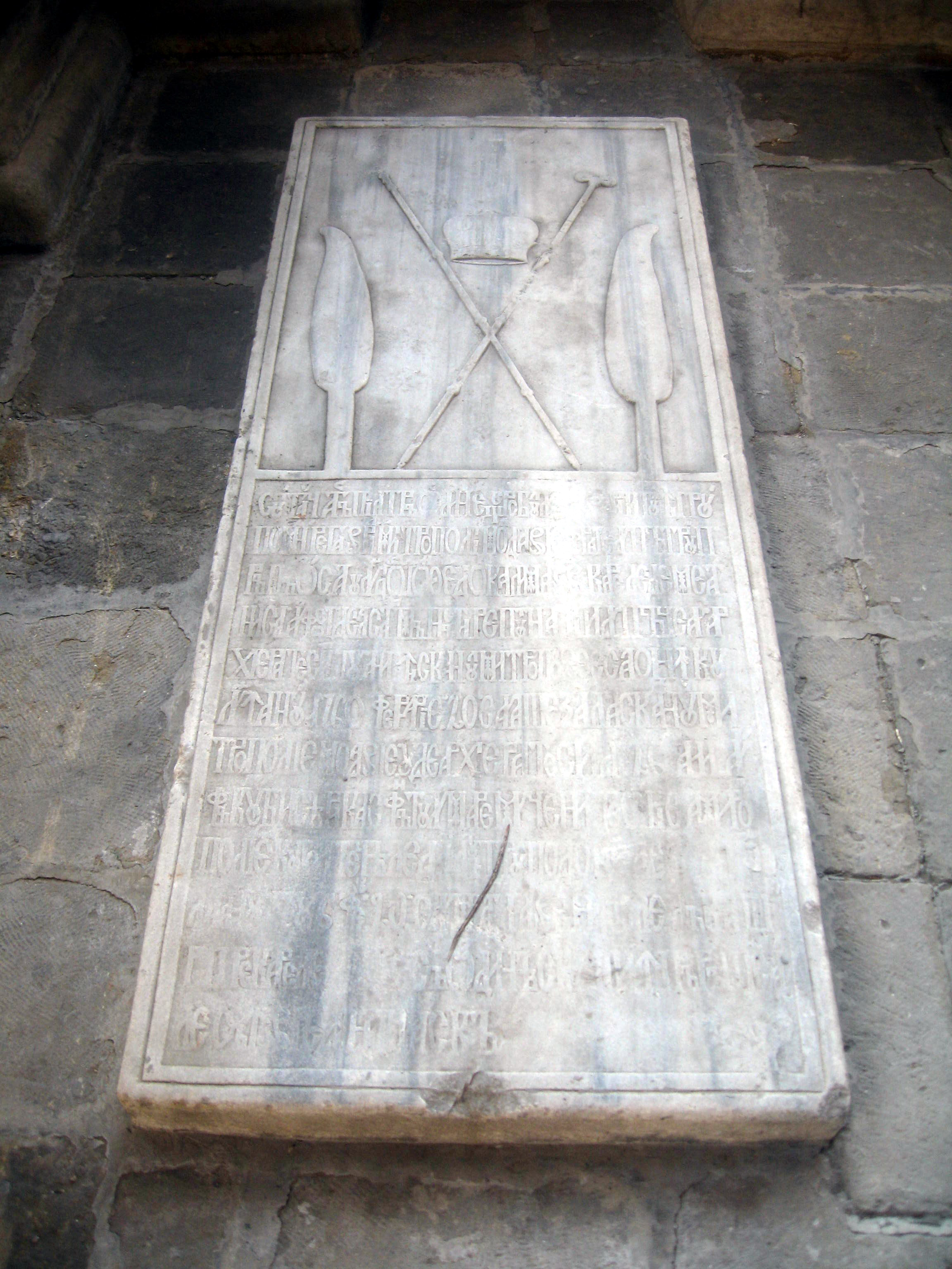 St.George Church in Iași (old Metropolitan Cathedral)